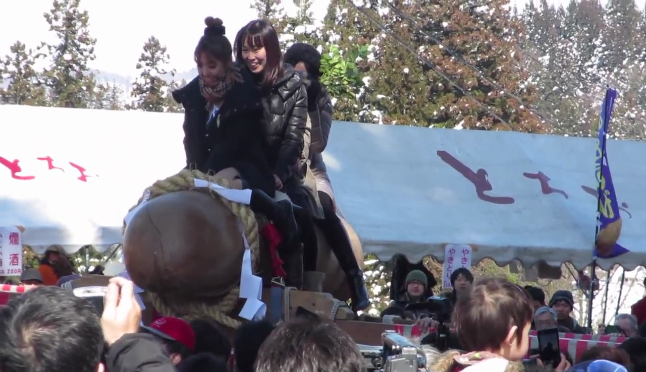 Hodare Festival (Hodare Matsuri), a festival in Tochio, Nagaoka, Niigata Prefecture, Japan